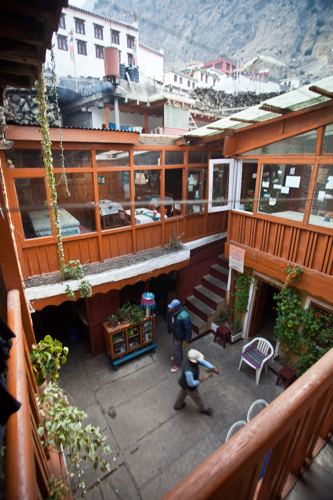 Courtyard